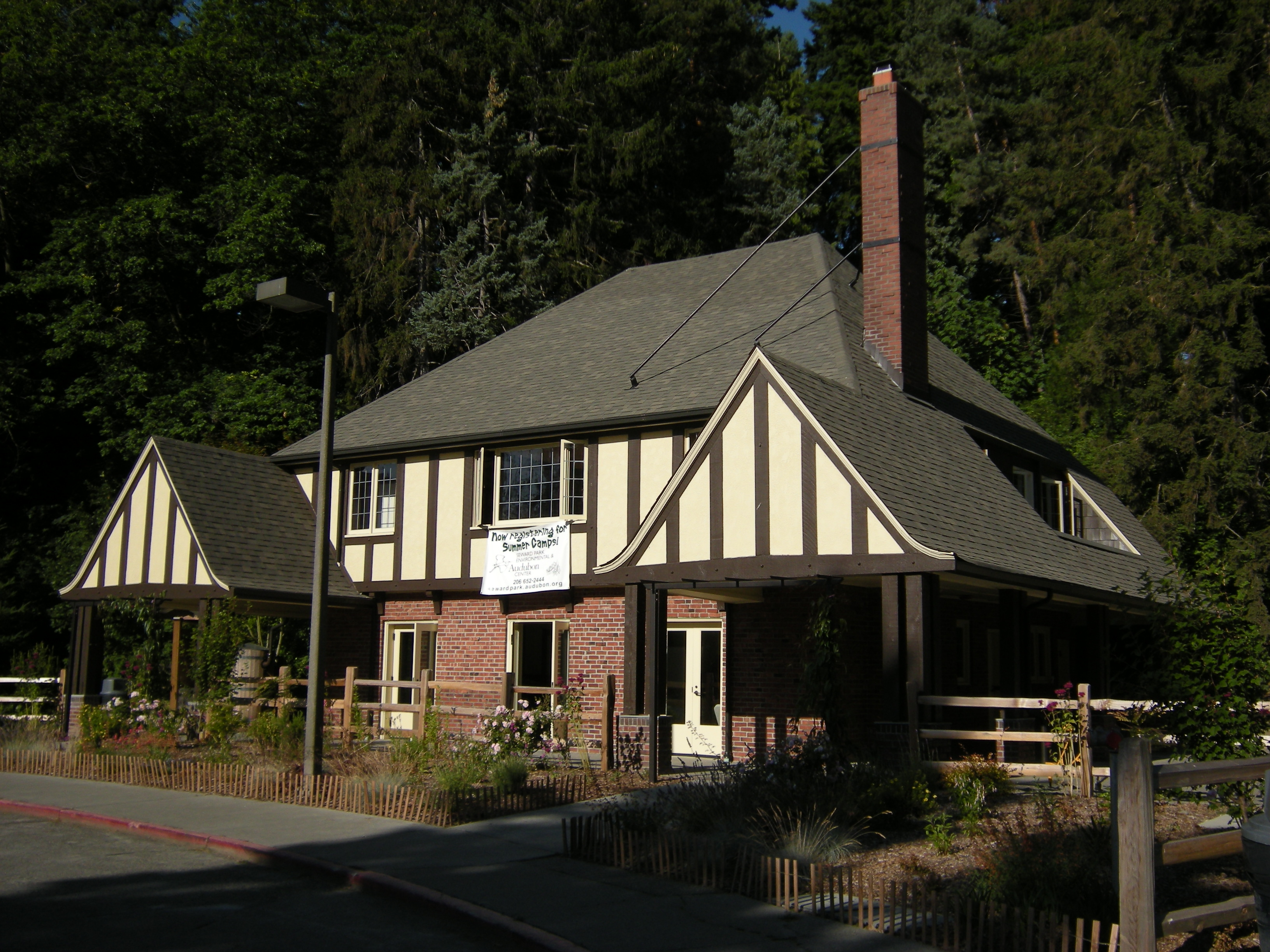 The recently restored Seward Park Inn, Seward Park, Seattle, Washington. The building has city landmark status.